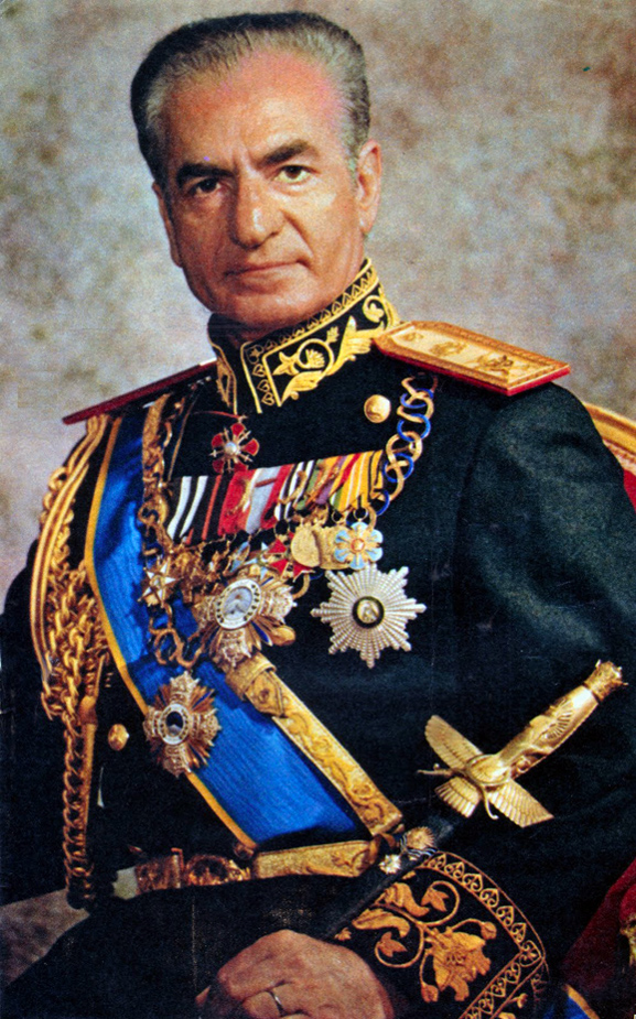 Mohammad Reza Shah Pahlavi Shahanshah Aryamehr 1941 - 1979